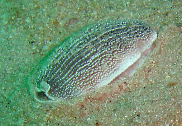 Gilchrists armina on sand off Windmill Beach, Simon's Town